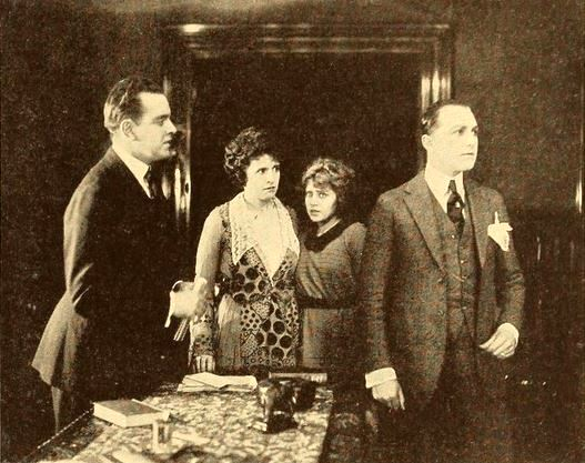 Still from the American film The House Without Children (1919) with Richard Travers, Gretchen Hartman, Helen Weir, and Henry G. Sell, on page 1761 of the August 30, 1919 Motion Picture News.